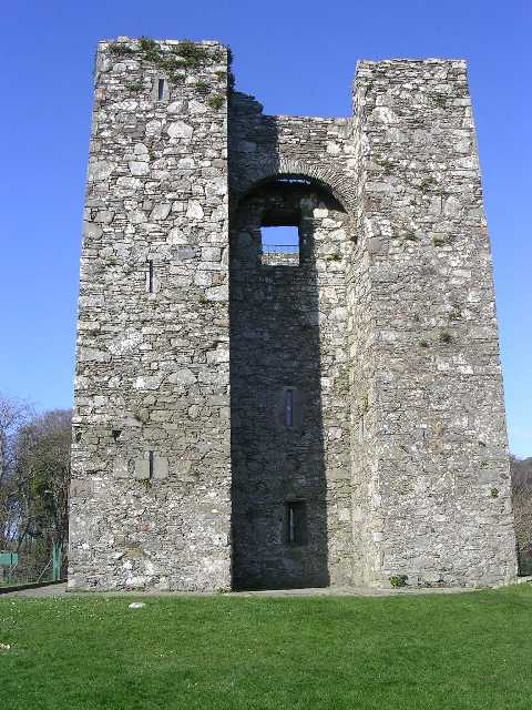 Audley's Castle, a 15th century castle located near Strangford, County Down, Northern Ireland.